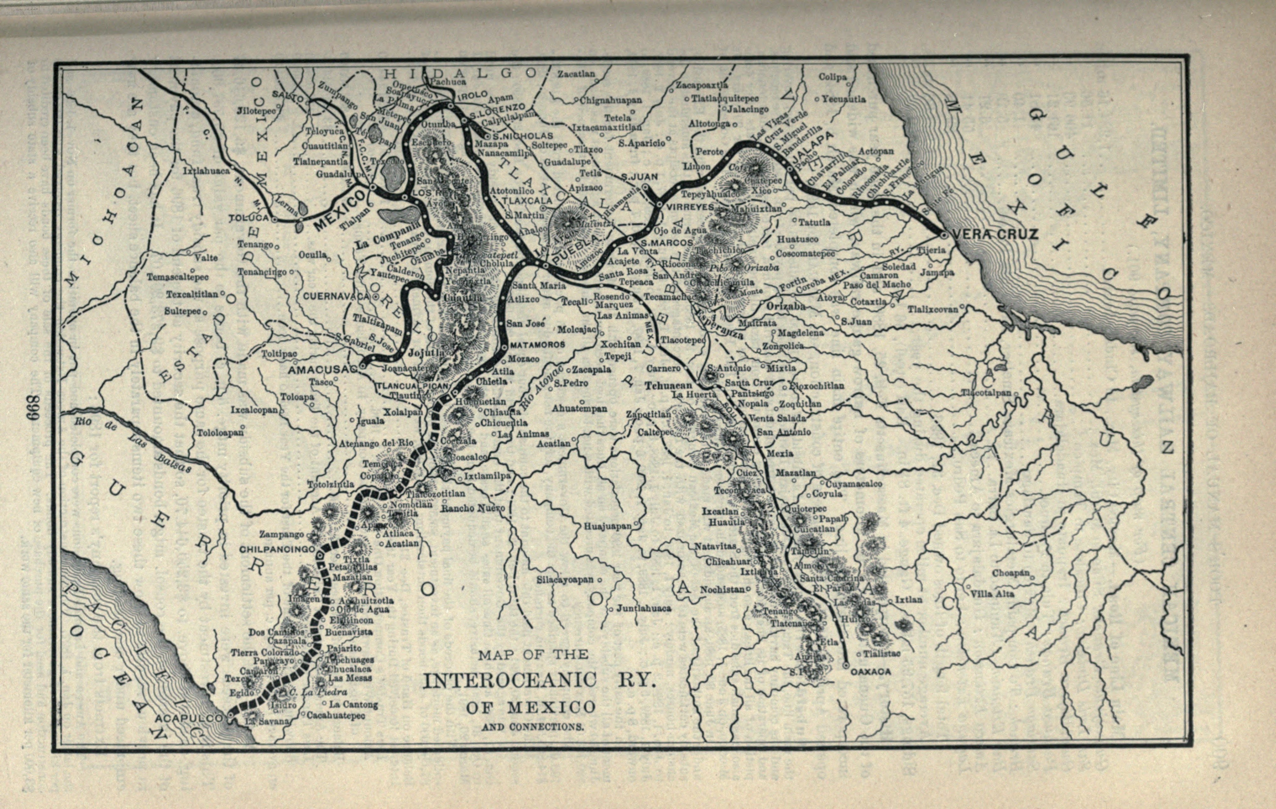 Interoceanic Railway of Mexico